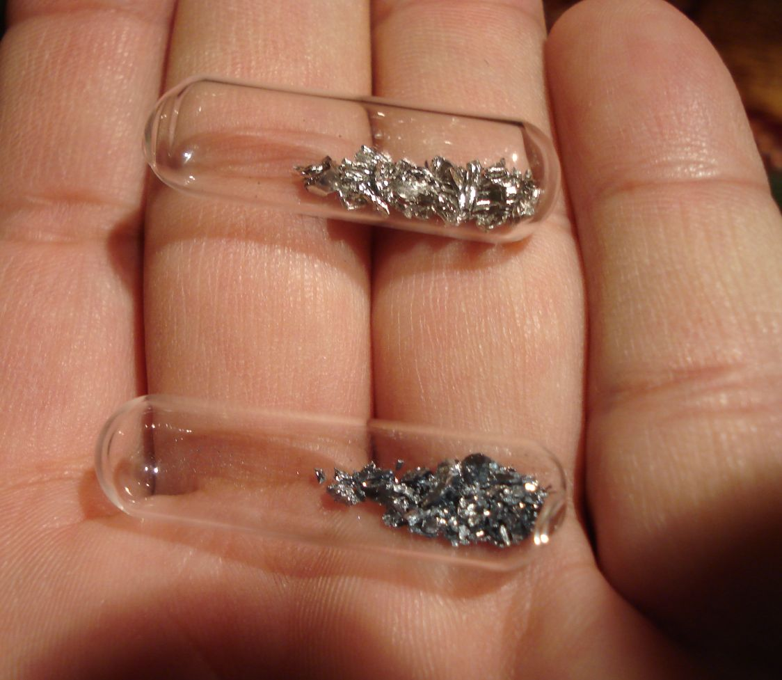 Iridium and Osmium in ampulla